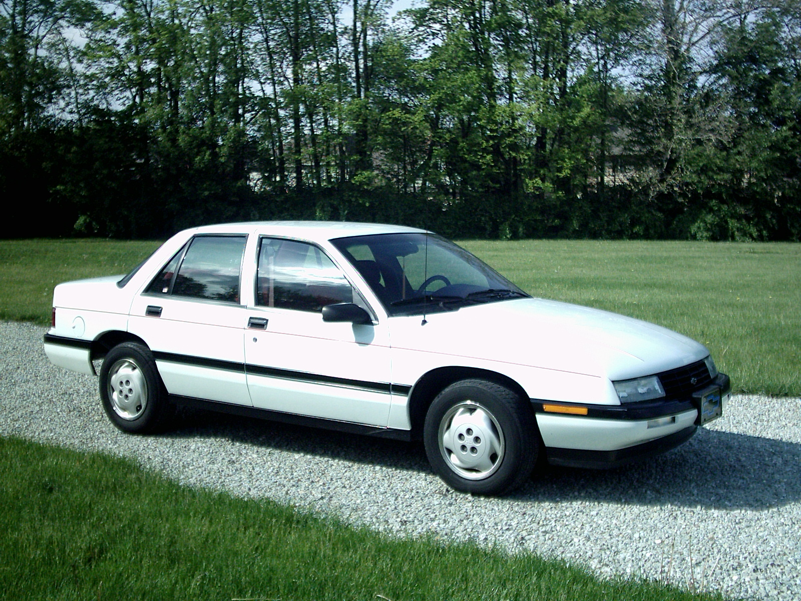 1994 Chevrolet Corsica in Carmel, Indiana, USA